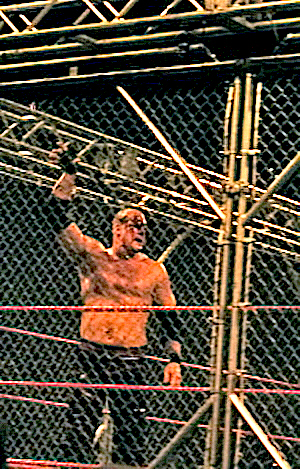 This photo is not copyrighted. I took it with my digital camera.